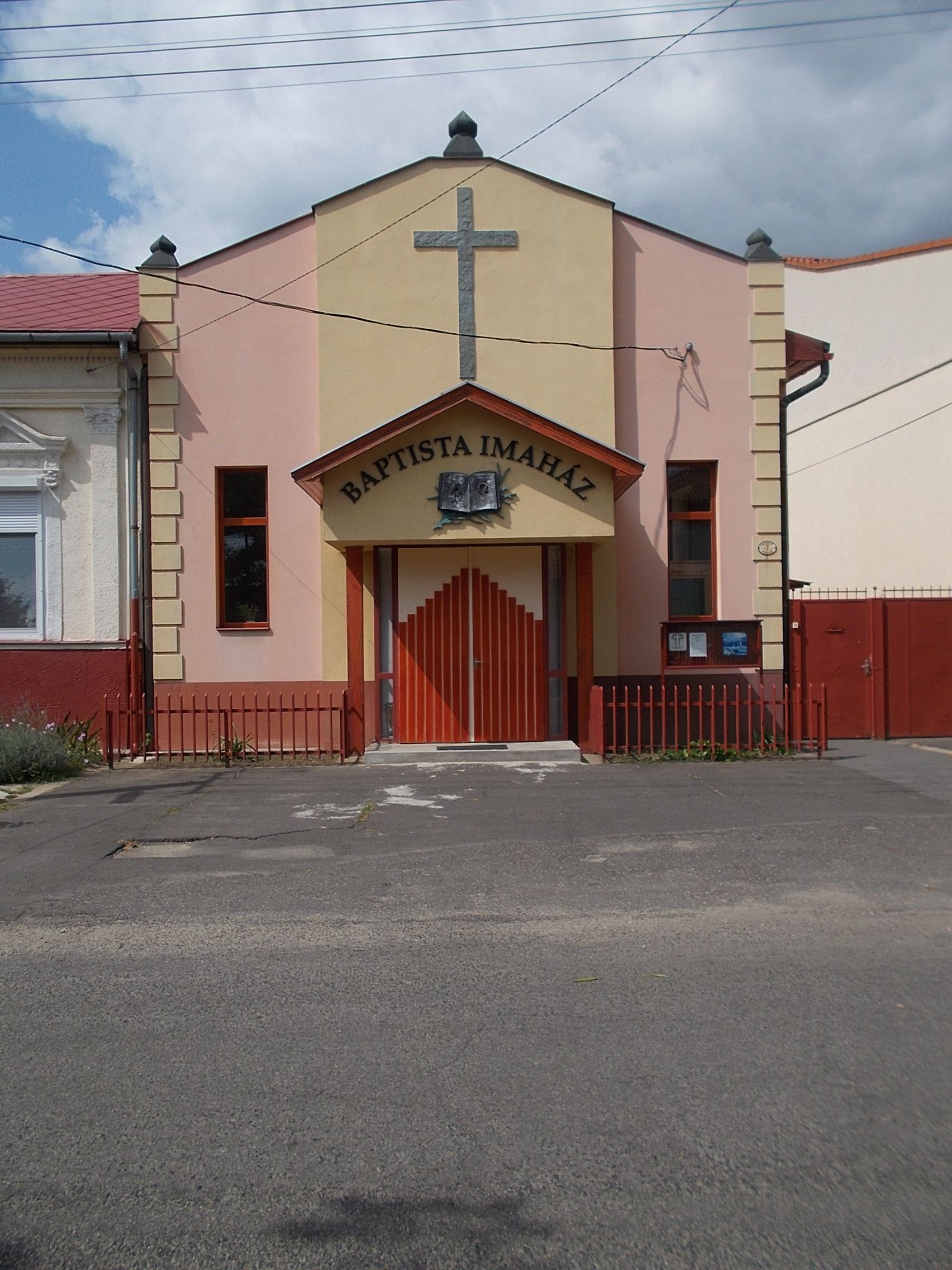 Baptist church - 7 Rózsa Street, Nyíregyháza, Szabolcs-Szatmár-Bereg County, Hungary.